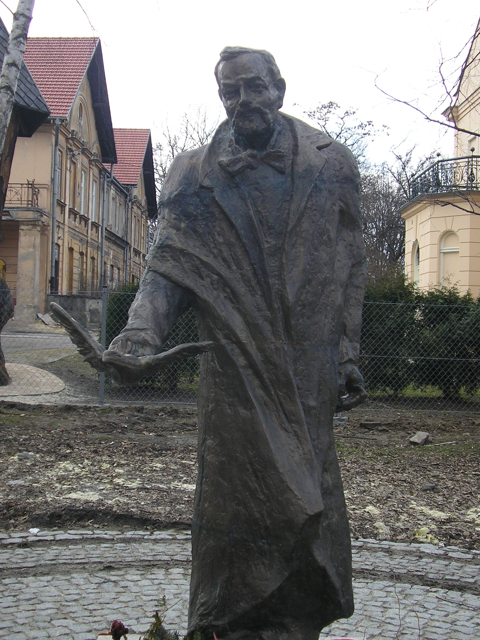 Monument to Erazm Jerzmanowski in park in Prokocim (Kraków)